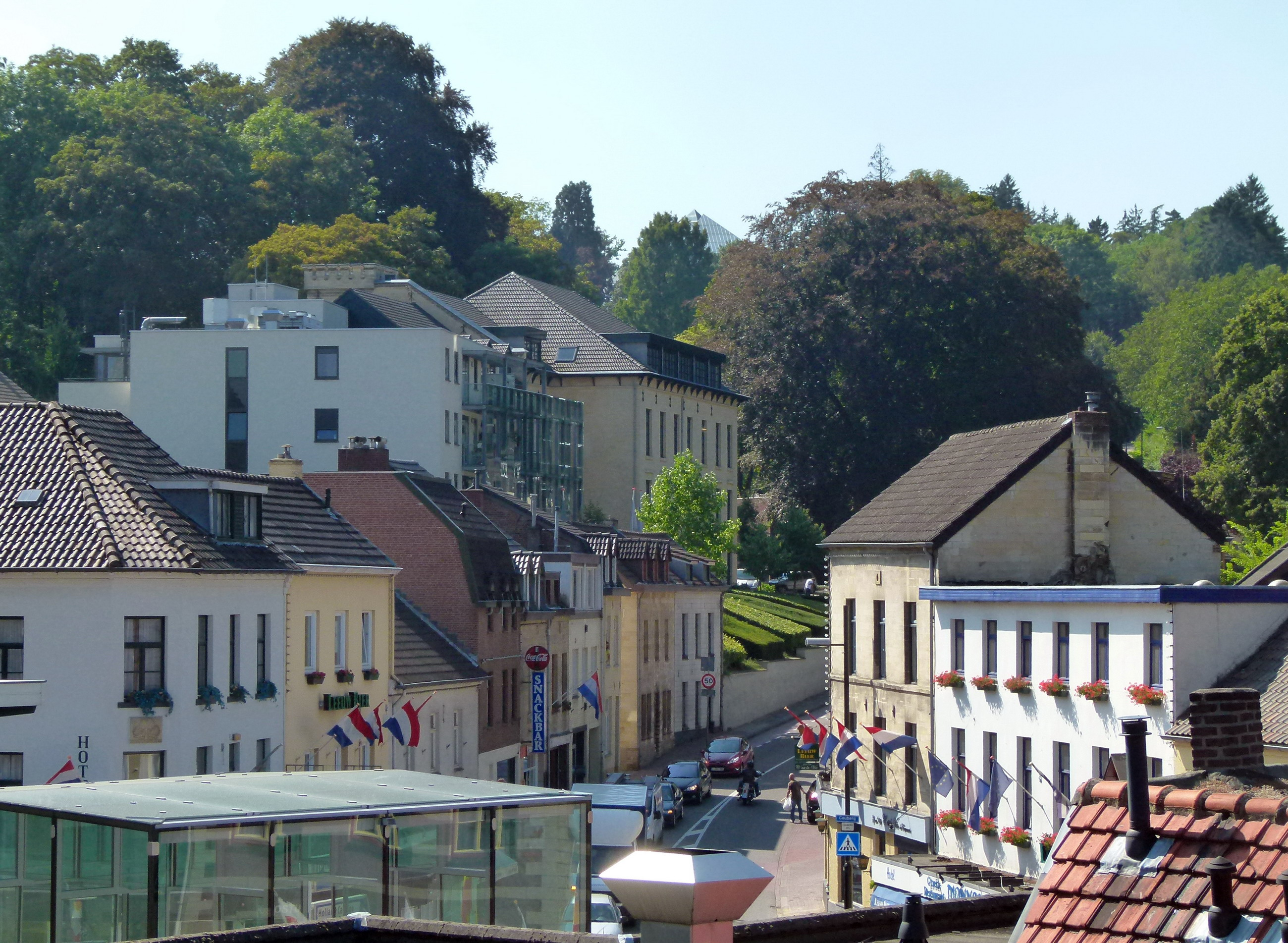 Valkenburg, Limburg, the Netherlands. View towards Cauberg from Valkenburg Castle.